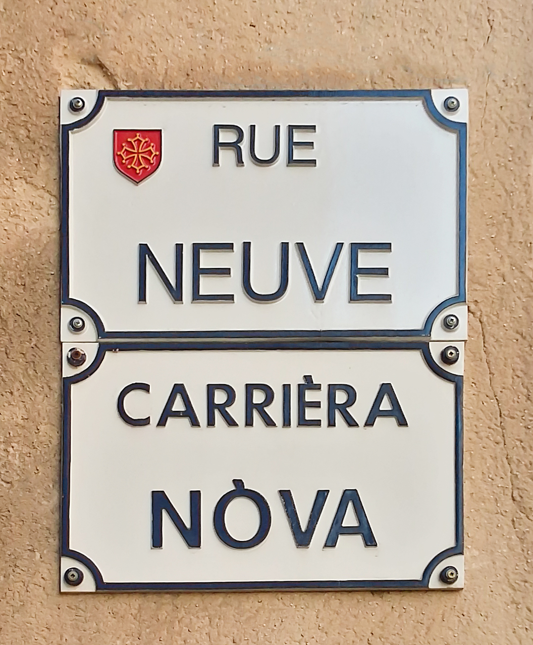 Rue Neuve, in Toulouse - Street name sign. They have the particularity of being: in French and Occitan.